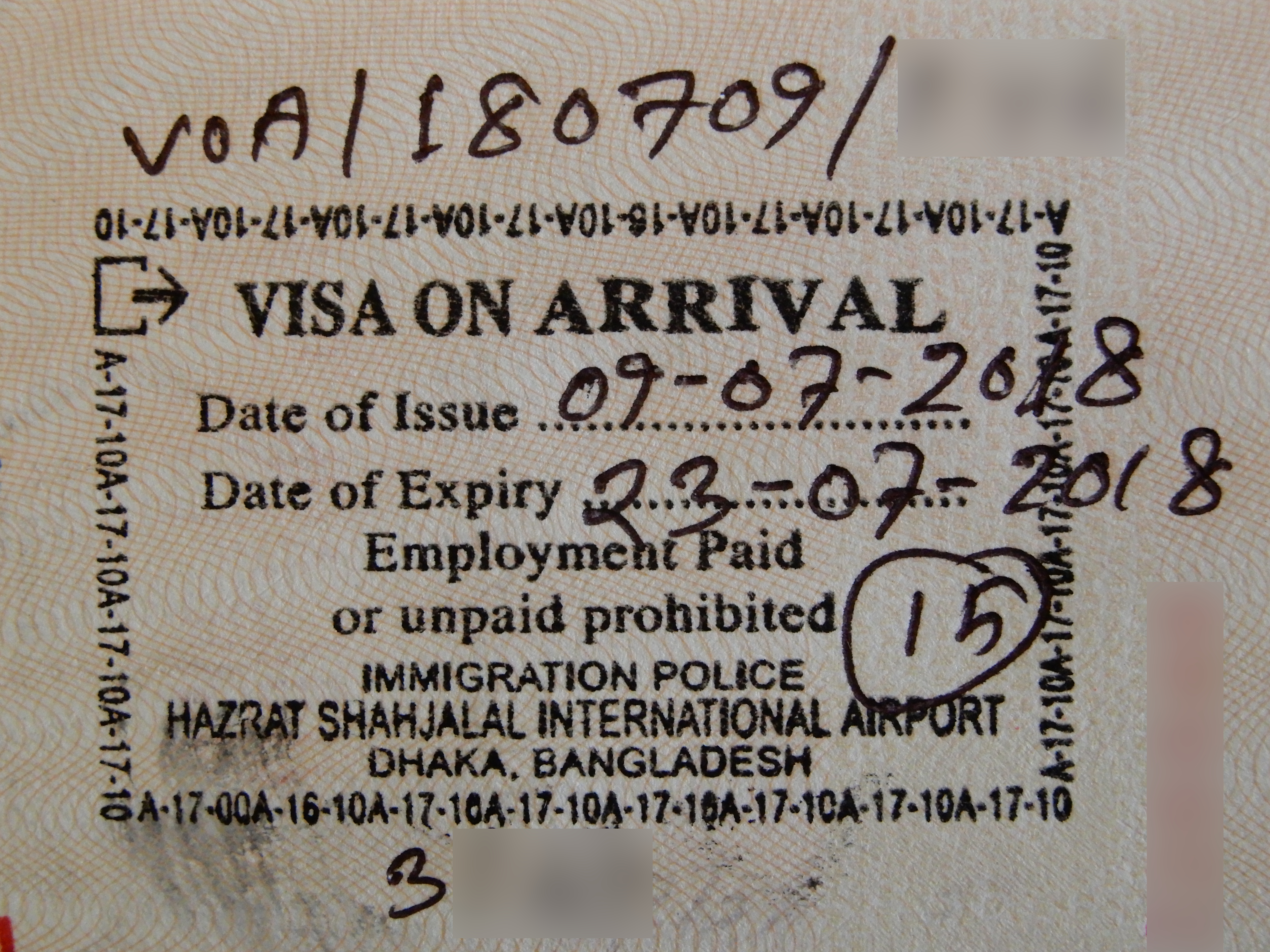 Bangladesh visa on arrival issued to a Chinese Citizen at Shahjalal International Airport, Dhaka